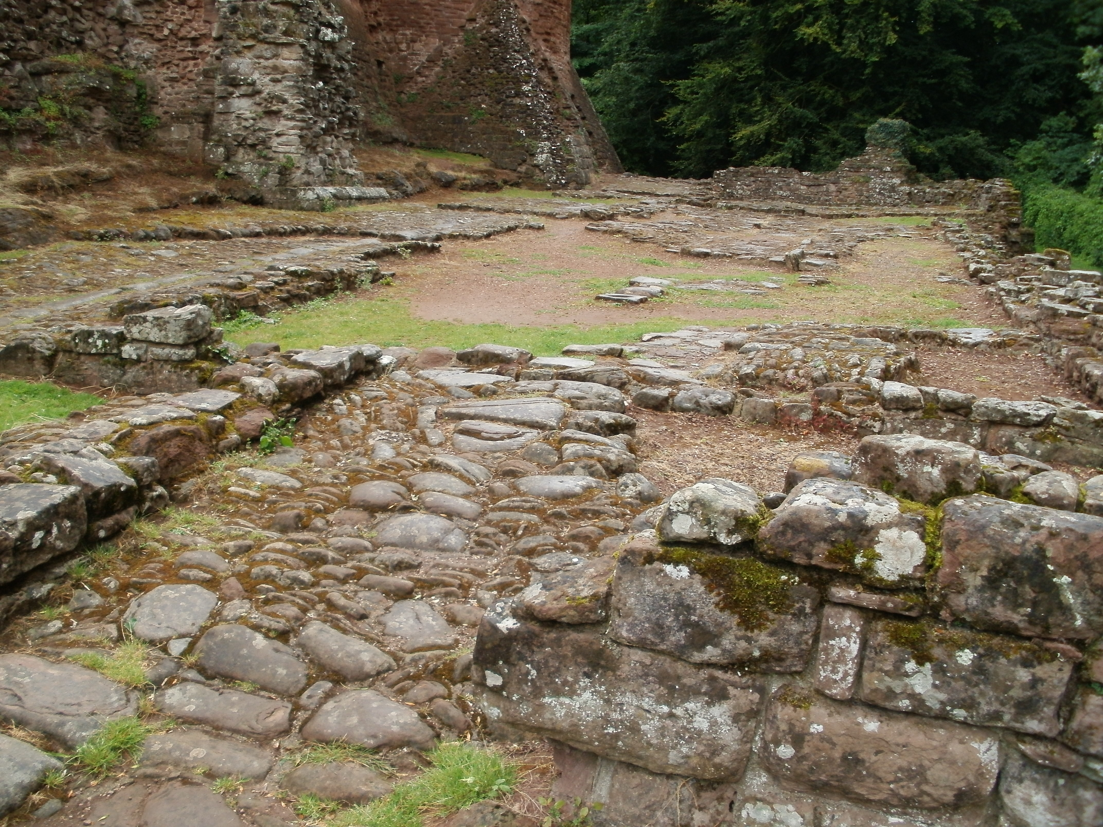 The ruins of the stable block at Goodrich Castle, destroyed in 1646.